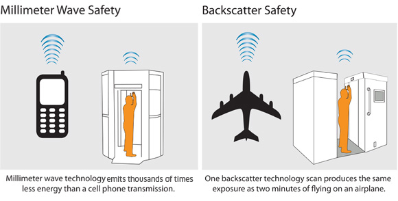 Comparison of radiation dosage for backscatter and millimeter wave scanner. "For comparison, the energy projected by millimeter wave technology is thousands of times less than a cell phone transmission. A single scan using backscatter technology produces exposure equivalent to two minutes of flying on an airplane."